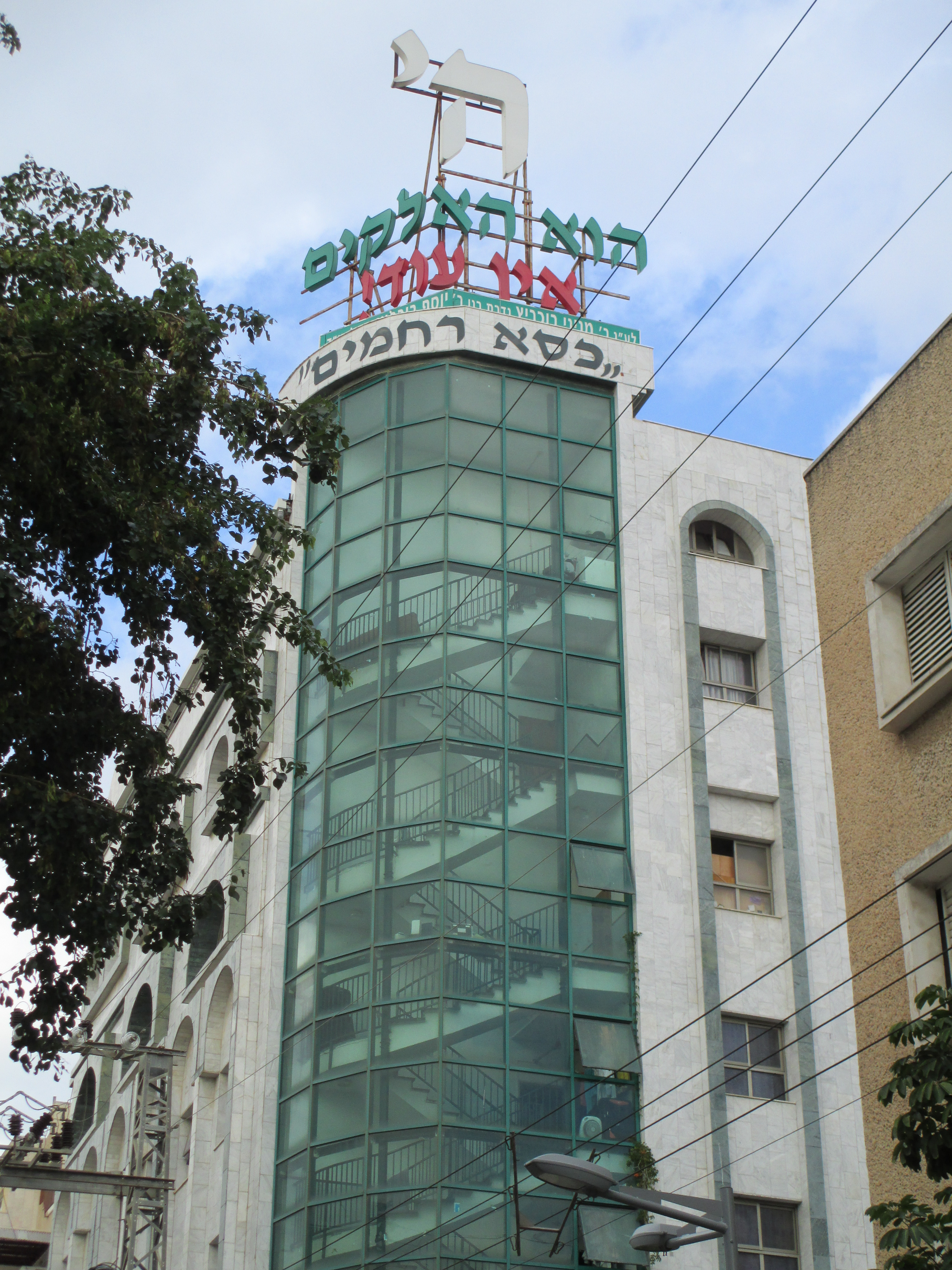 kisse rahamin yeshiva in bnei brak ישיבת כסא רחמים בבני ברק